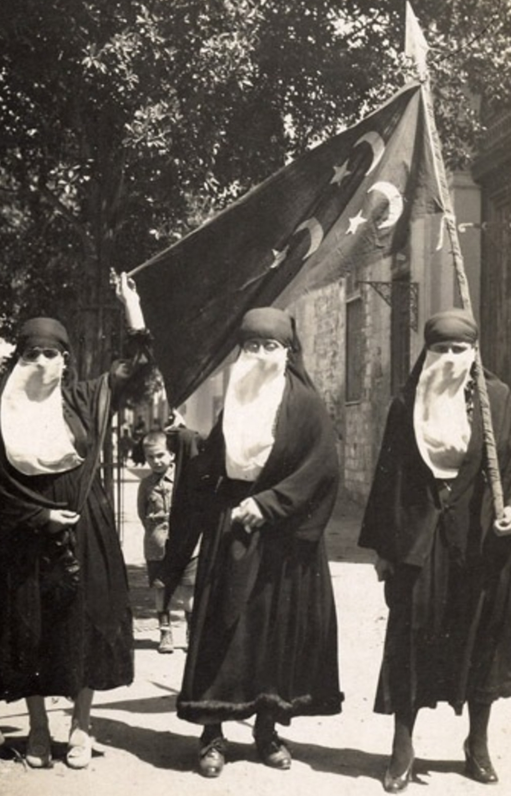 Nationalists demonstrating in Cairo.